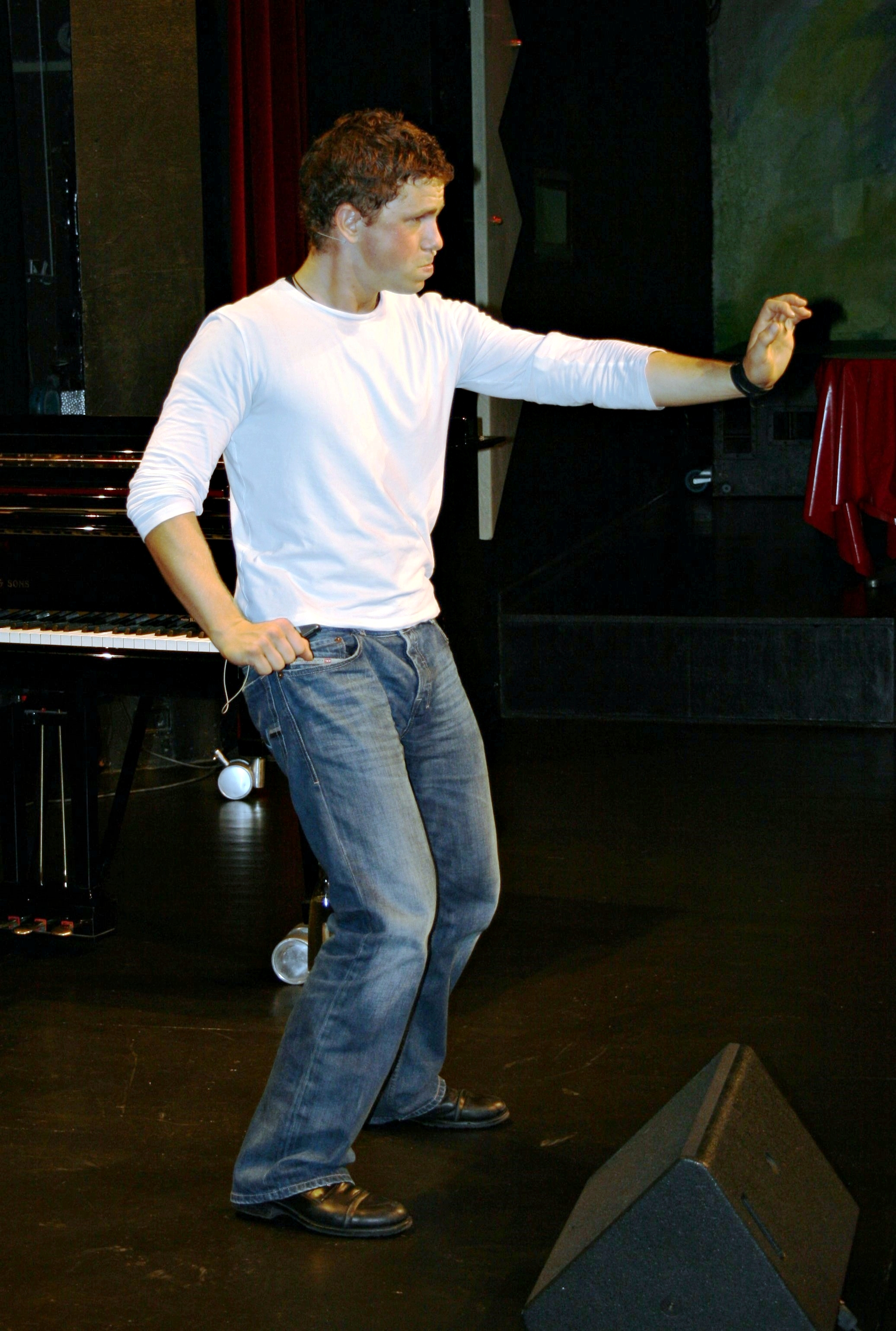 Germany, Bonn: Music revue artiste, musician Nepo Fitz performes in club "Pantheon".